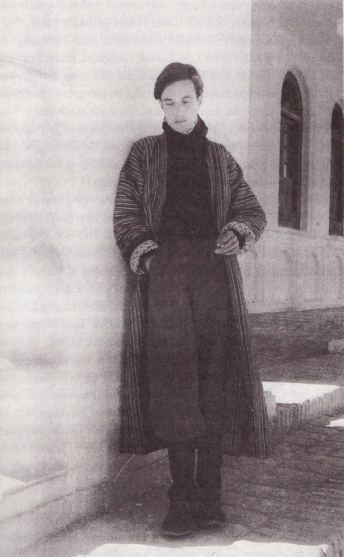 Annemarie Schwarzenbach in Taschkurgan (Afghan Turkestan) (October 1939)